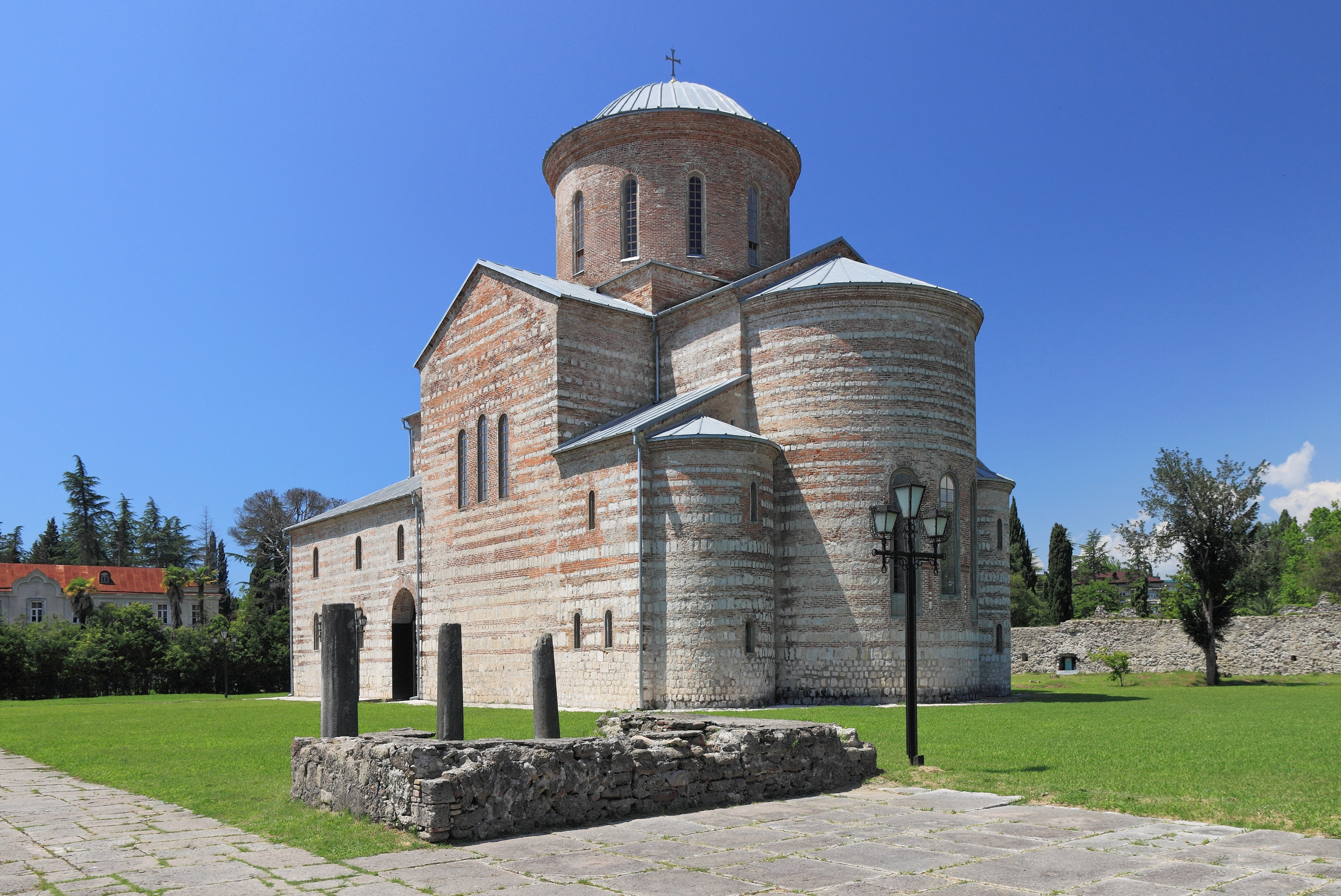 St. Andrew the Apostle Cathedral. Pitsunda, Gagra District, Abkhazia.